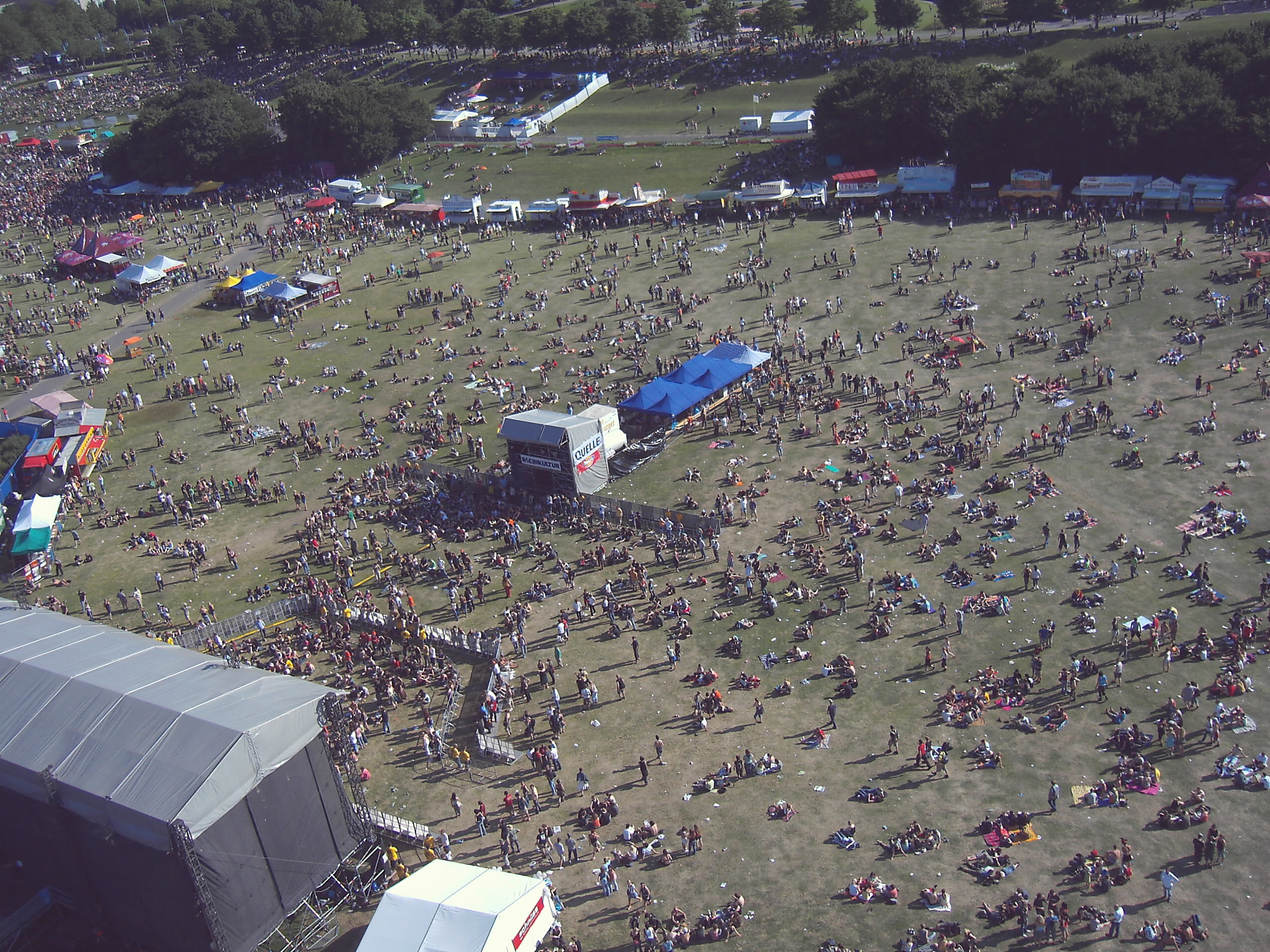 Aerial view of the Rheinaue Leisure Park in Bonn during the Rheinkultur (open air festival).